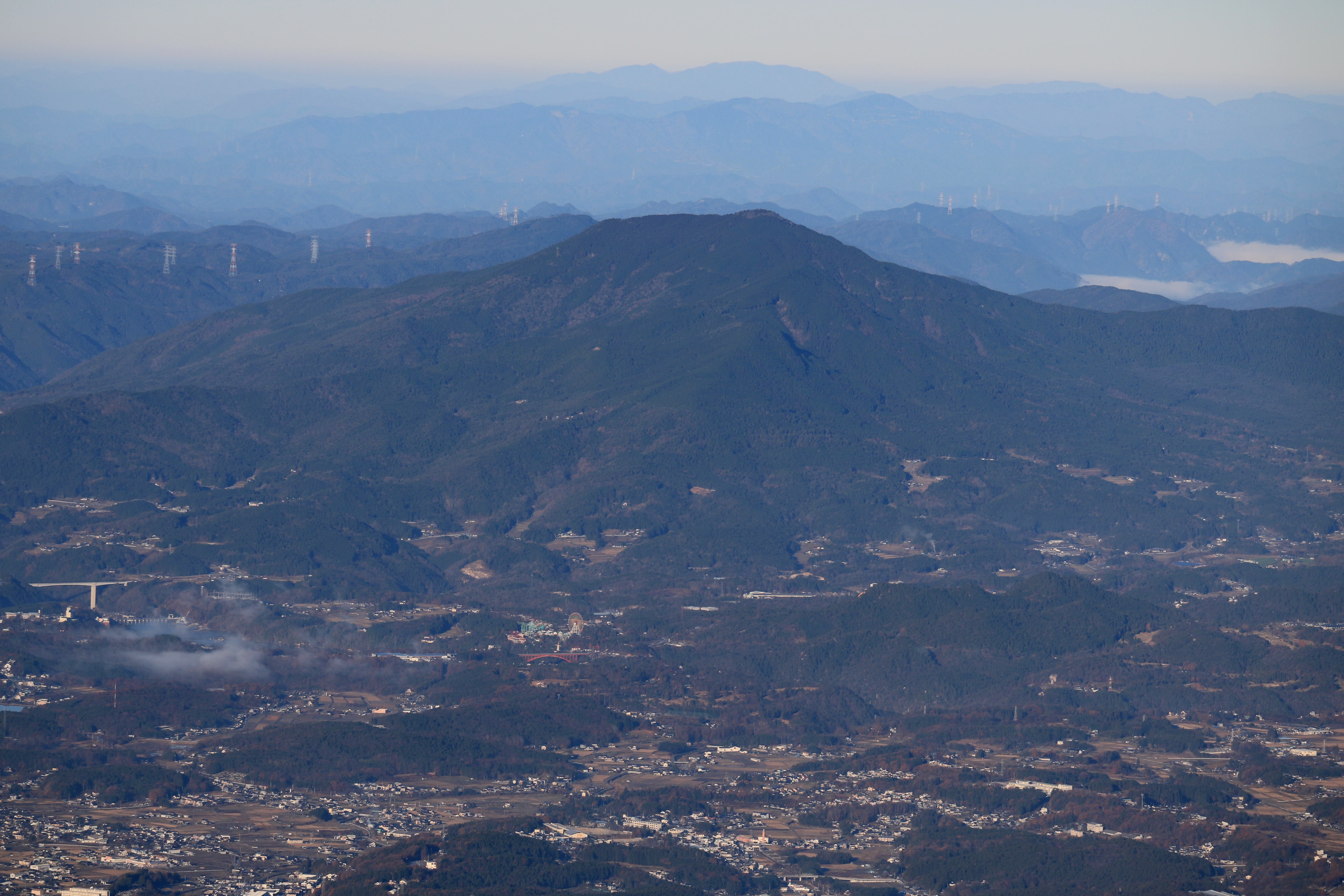 Mount Kasagi seen from Mount Ena in Gifu prefecture, Japan.